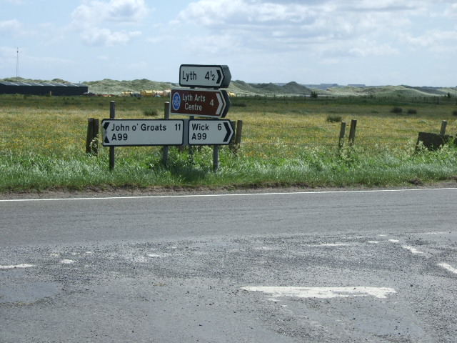 Lyth junction at Westerloch Keiss Links in the rear.